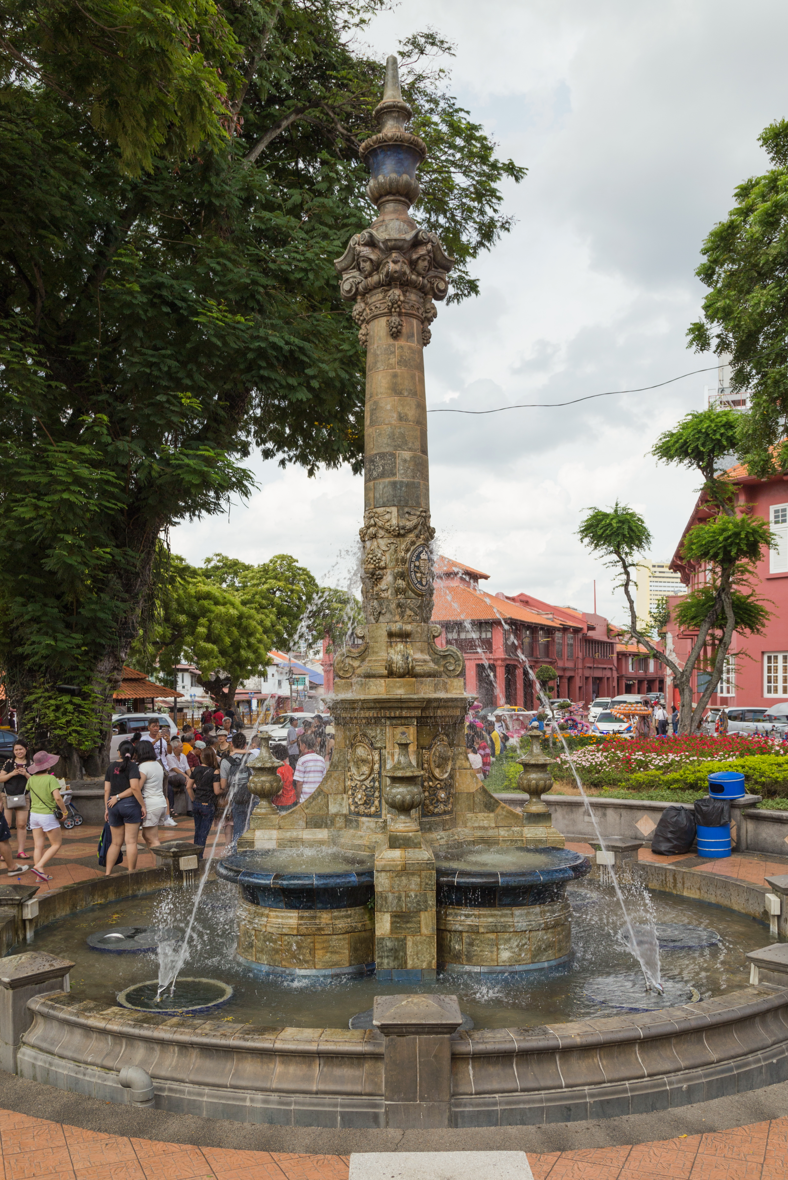 Queen Victoria's Fountain. Malacca City, Malacca, Malaysia.